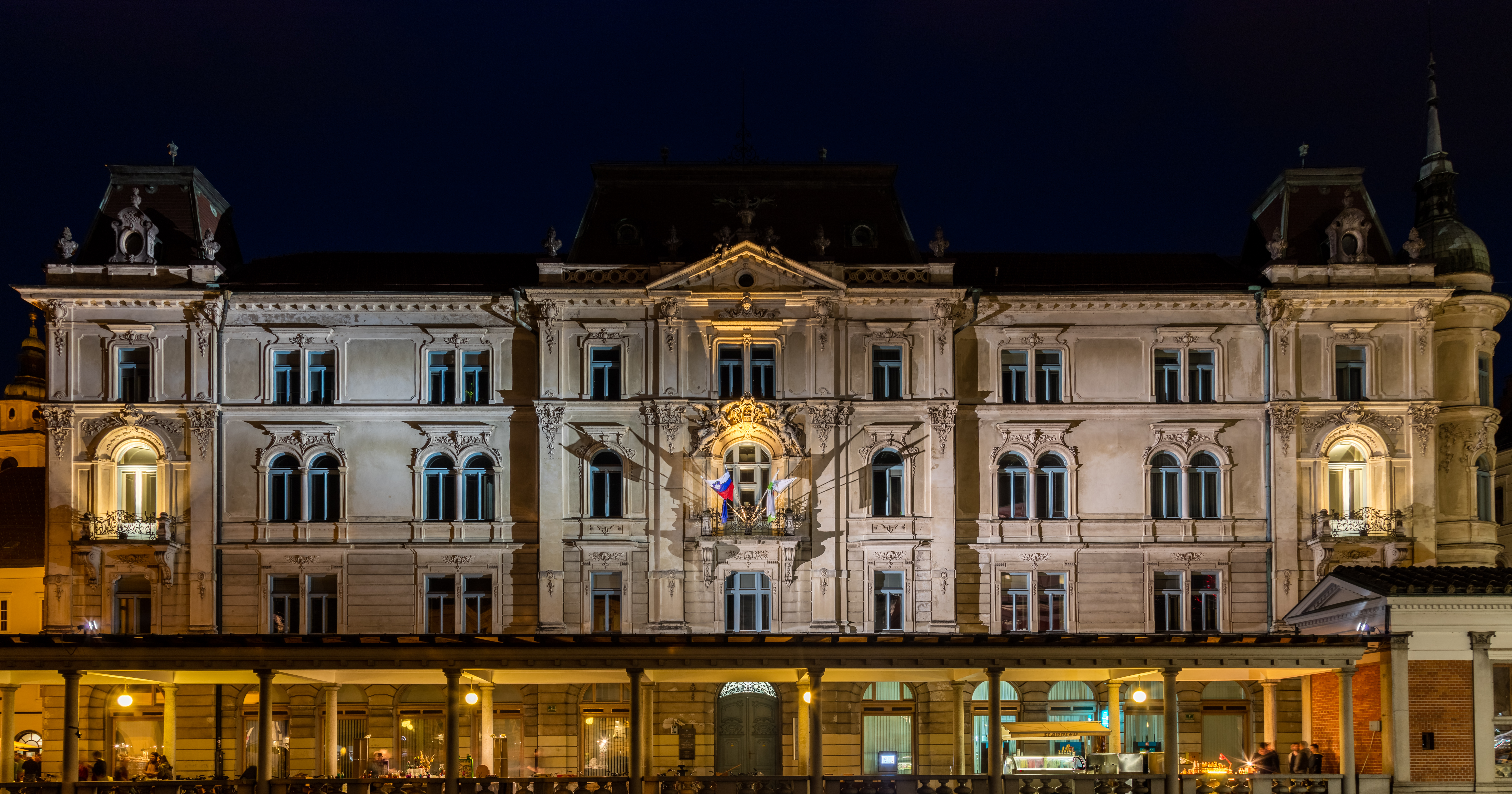 Administration building of the Republic of Slovenia, Ljubljana, Slovenia